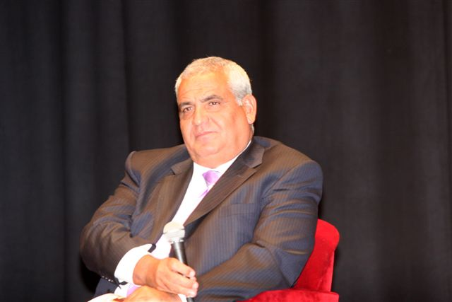 A.C.F. Fiorentina's coach, Pantaleo Corvino